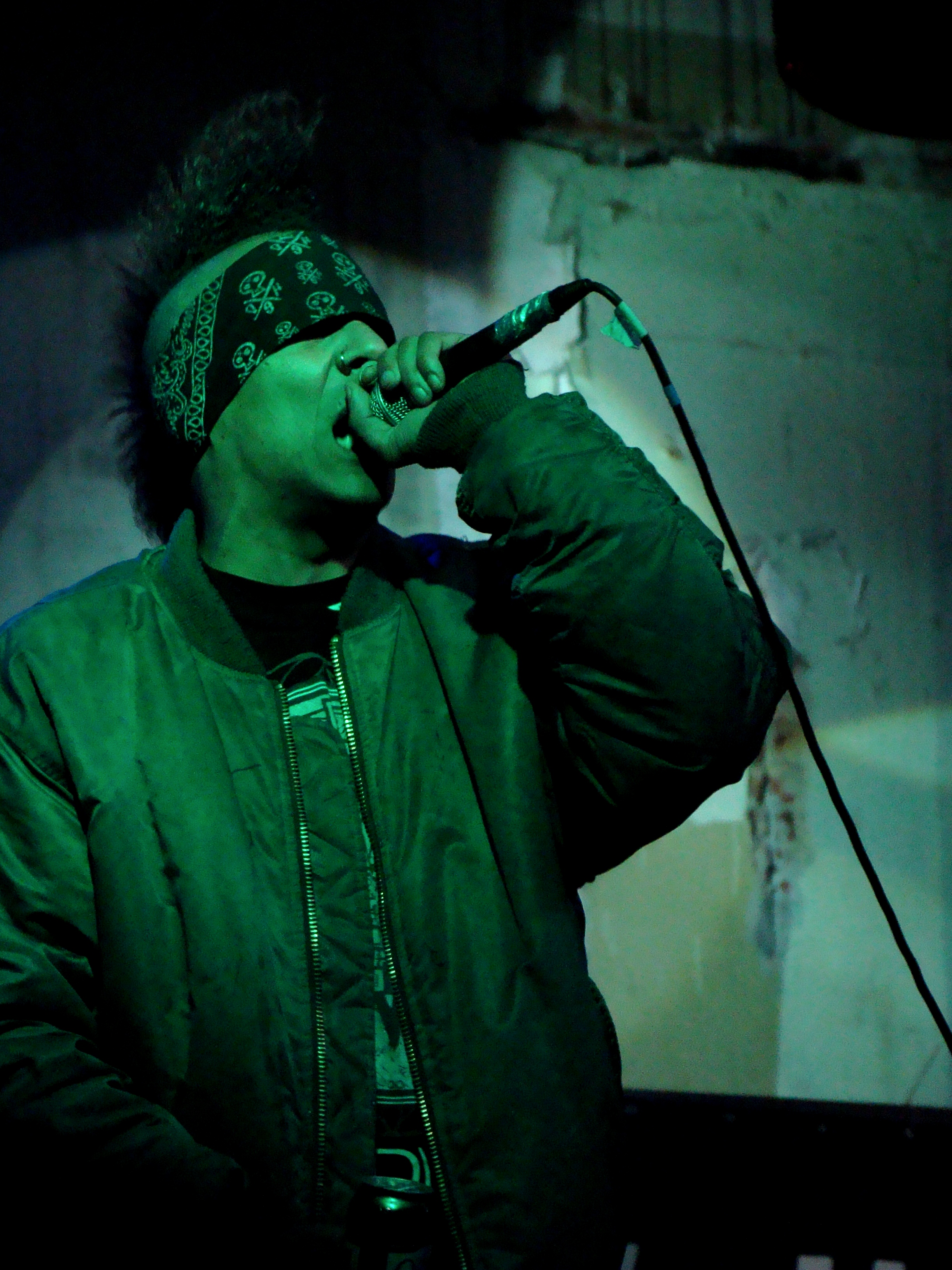 MCUD of Hed PE at Ruynatsiya Festival 2012 in Lviv.